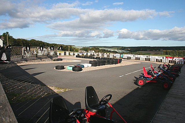 Go-cart Track The go-carts at Williamson's Garden Centre are pedal-powered, so perhaps less hazardous than motorised ones. However there is still a long list of safety rules and features to prevent accidents to users.